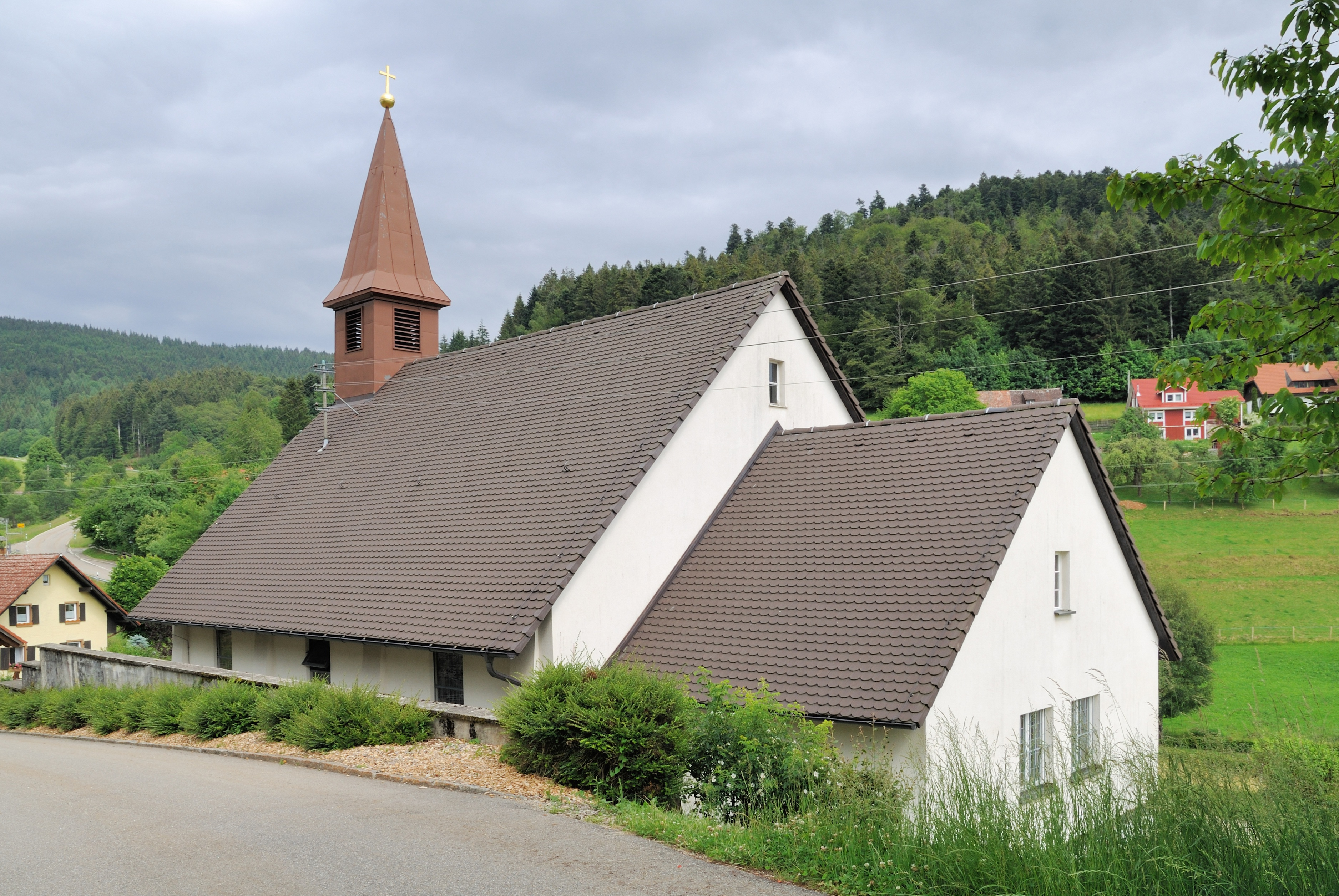 Marzell: Catholic Church